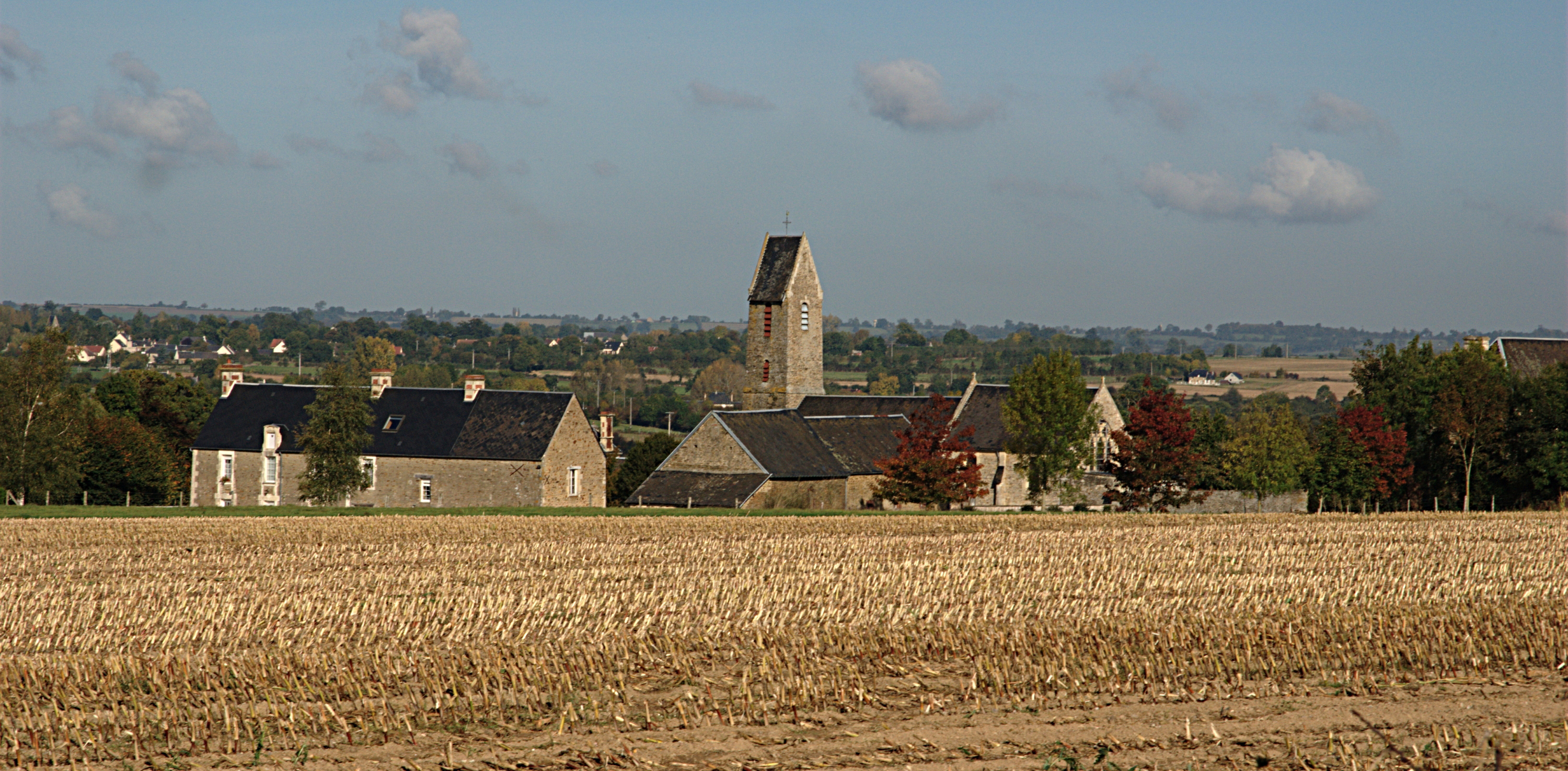 Maisoncelles-Pelvey village, in Calvados, French.